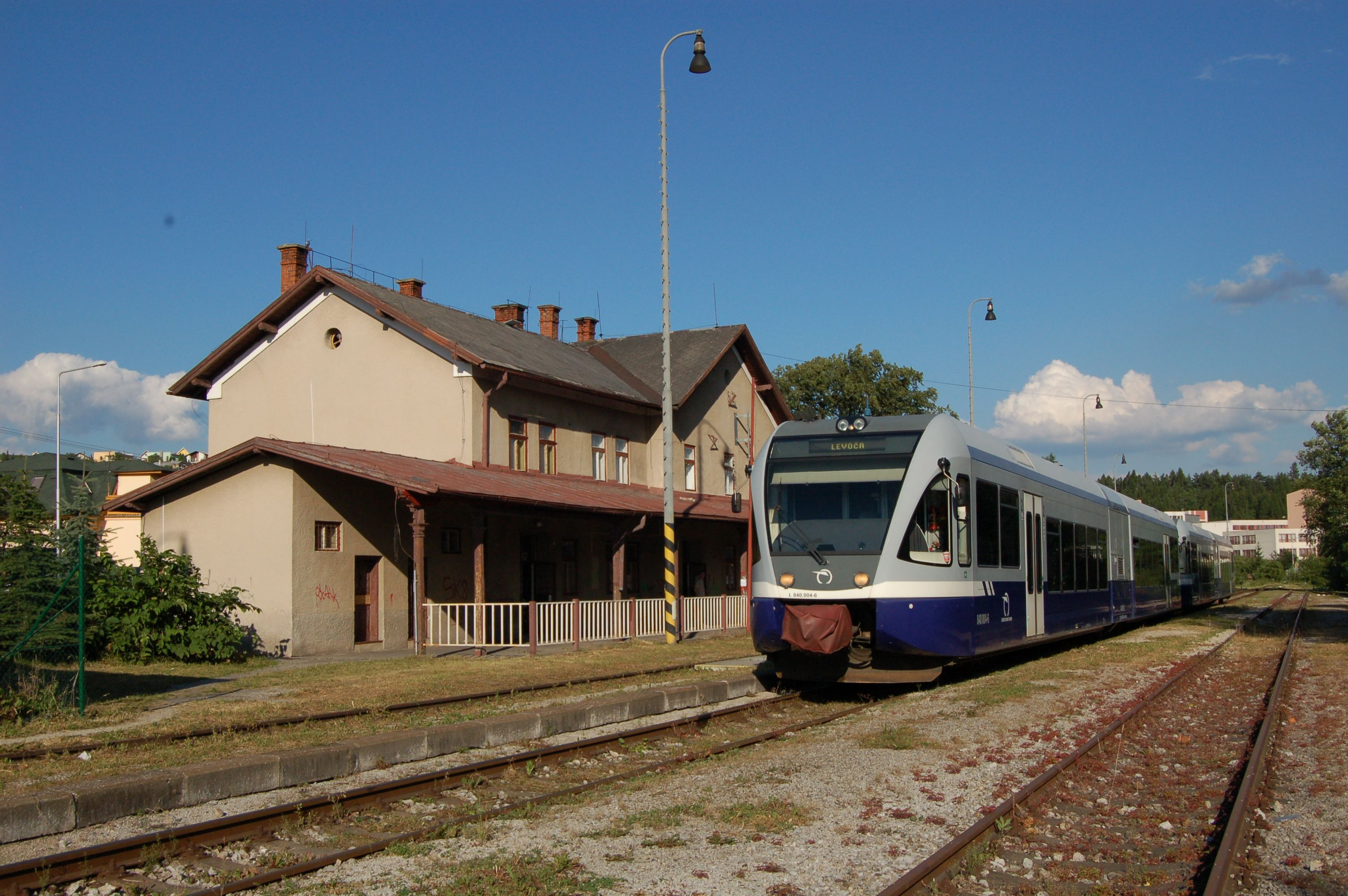 Station Levoča - 2010